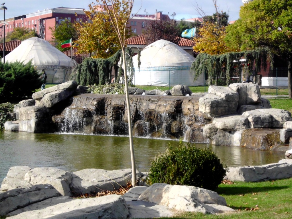 topkapı4